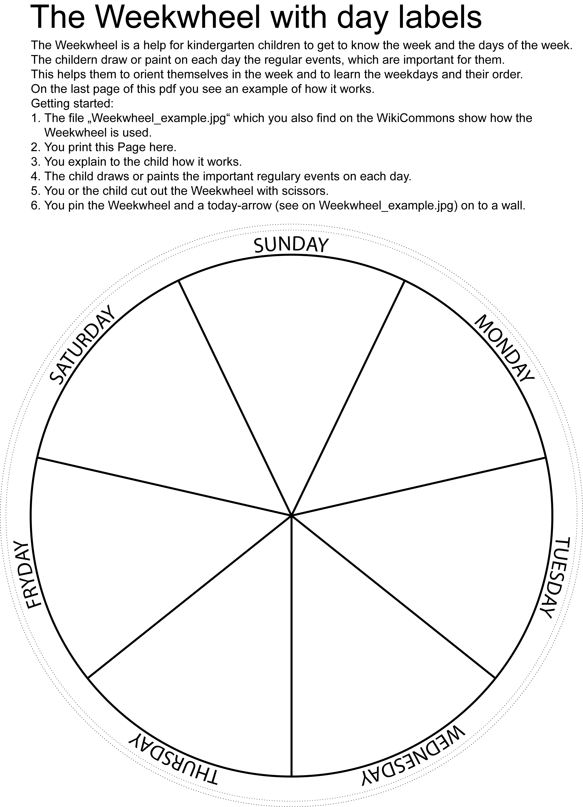 The Weekwheel is a help for kindergarten children to get to know the week and the days of the week. The childern draw or paint on each day the regular events, which are important for them. This helps them to orient themselves in the week and to learn the weekdays and their order. In the file "Weekwheel_example.jgg" you can see an example on how it works. The weekwheel is designed with Adobe Illustrator 11. Below at "other Versions" there is a svg-version of the Weekwheel which can be opened with Adobe Illustrator or any other vector graphics application which is able to open svg. Also at "other versions" you can find a pdf-file with the weekwheel and a german and a swiss german version of the Weekwheel as well.